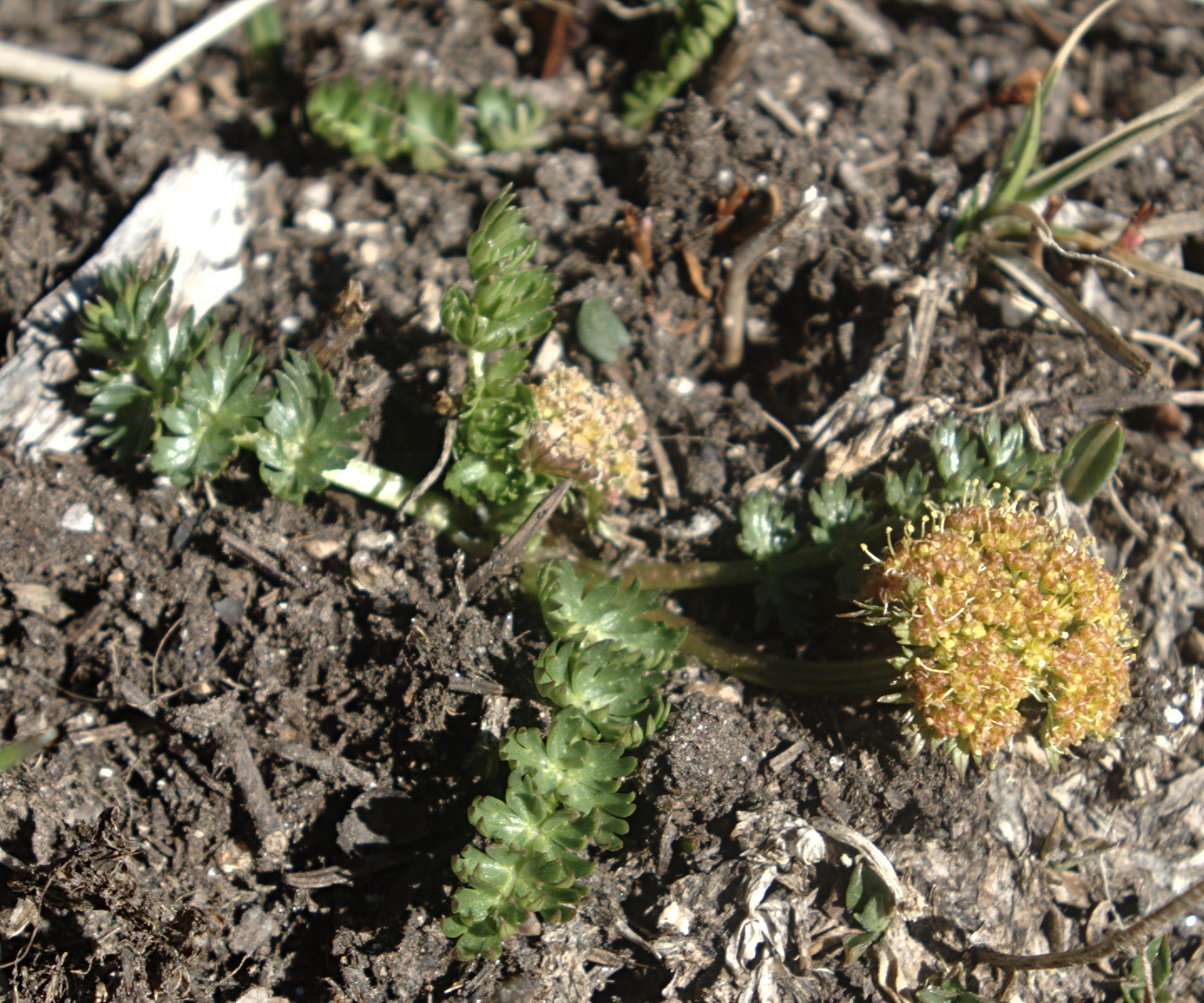 Podistera eastwoodiae, Tesuque Peak, Santa Fe National Forest, New Mexico. Somewhat gone to seed. Thanks to John Bregar and Patrick Alexander for identification.